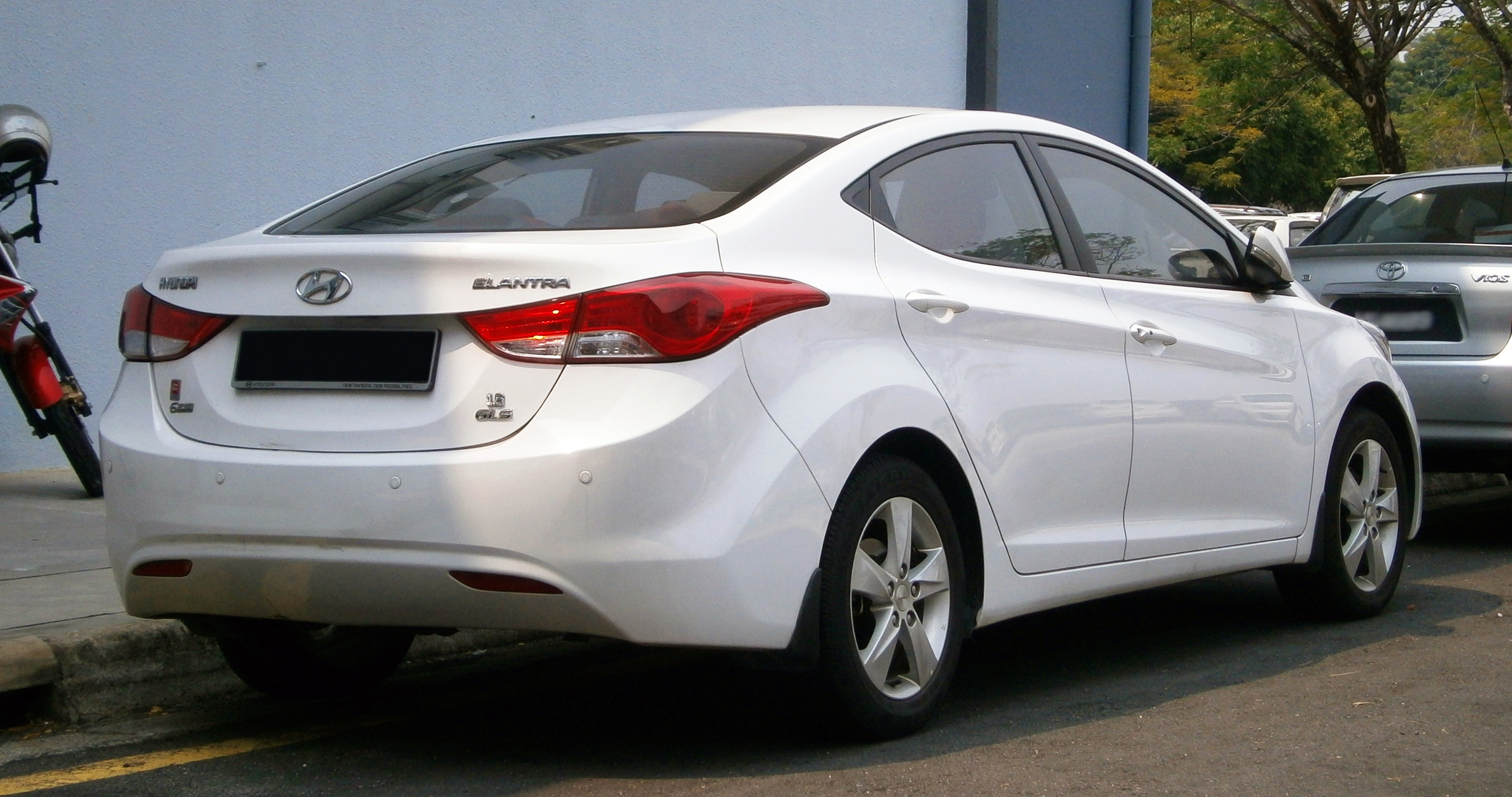 2013 Inokom (Hyundai) Elantra 1.6 GLS (Standard or High Spec) in Cyberjaya, Malaysia. Colour : Creamy White